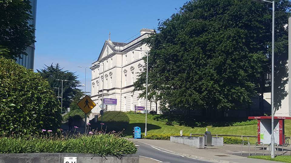 St Anthony's is the originial building of the School of Business & Economics at NUI Galway